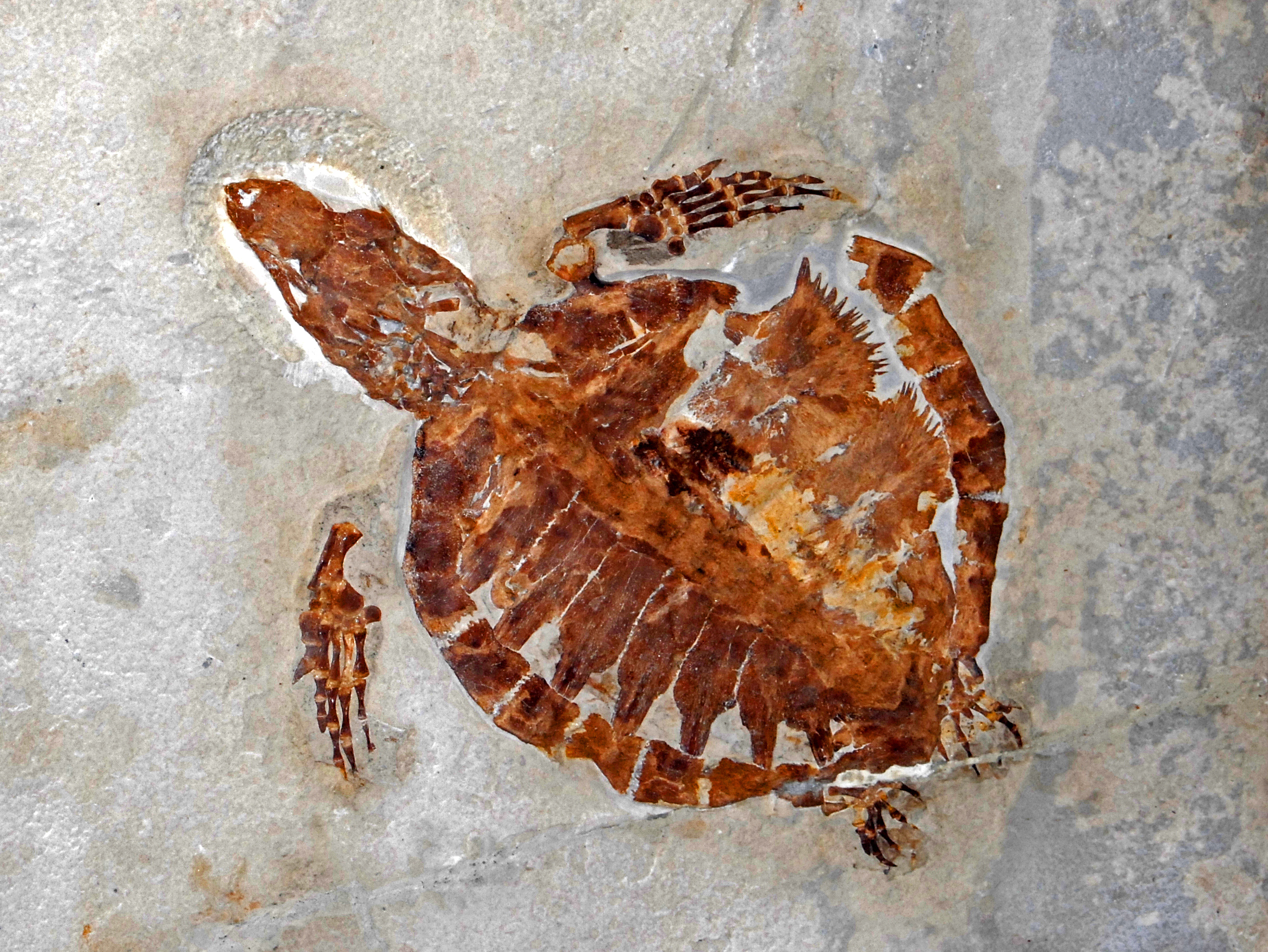 Fossil of Rhinochelys nammourensis, on display at the Museo Civico di Storia Naturale di Milano